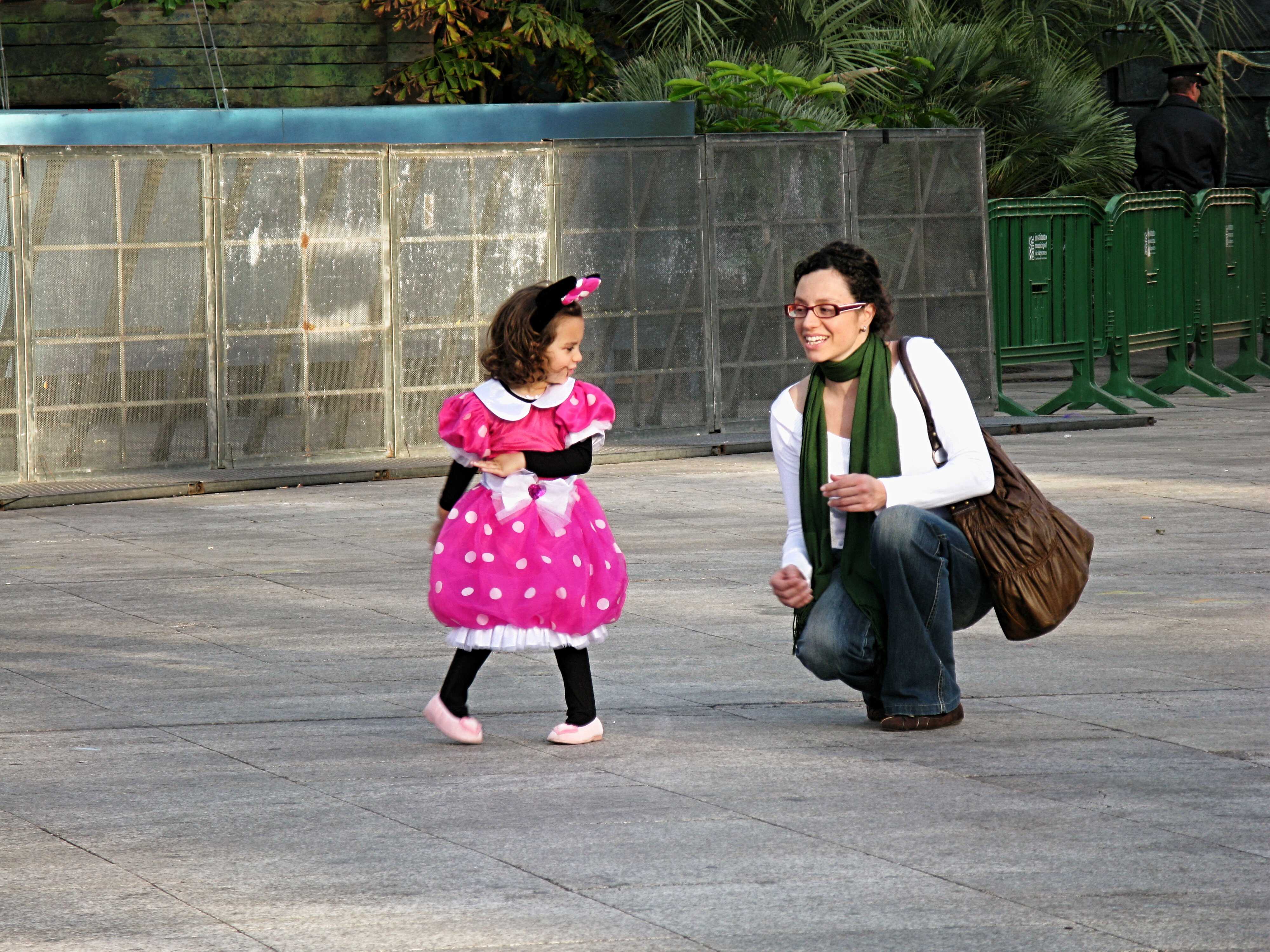 Free picture of a young mother playing with her daughter girl outside in Gran Canaria. This picture was created by my funny friend epSos.de and can be used for free, if you link epSos.de as the original author of the image. This single parent mom is parenting her young child as well as she can while her family business of motherhood is distracted by the playing of her daughter who is dancing in a costume for the Spanish Carnival de pequeños. The woman seems to be happy with her girl. Thank you for sharing this picture with your friends !